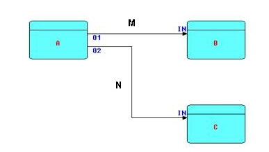 This shows a simple 3 block FBP diagram, with connections labeled